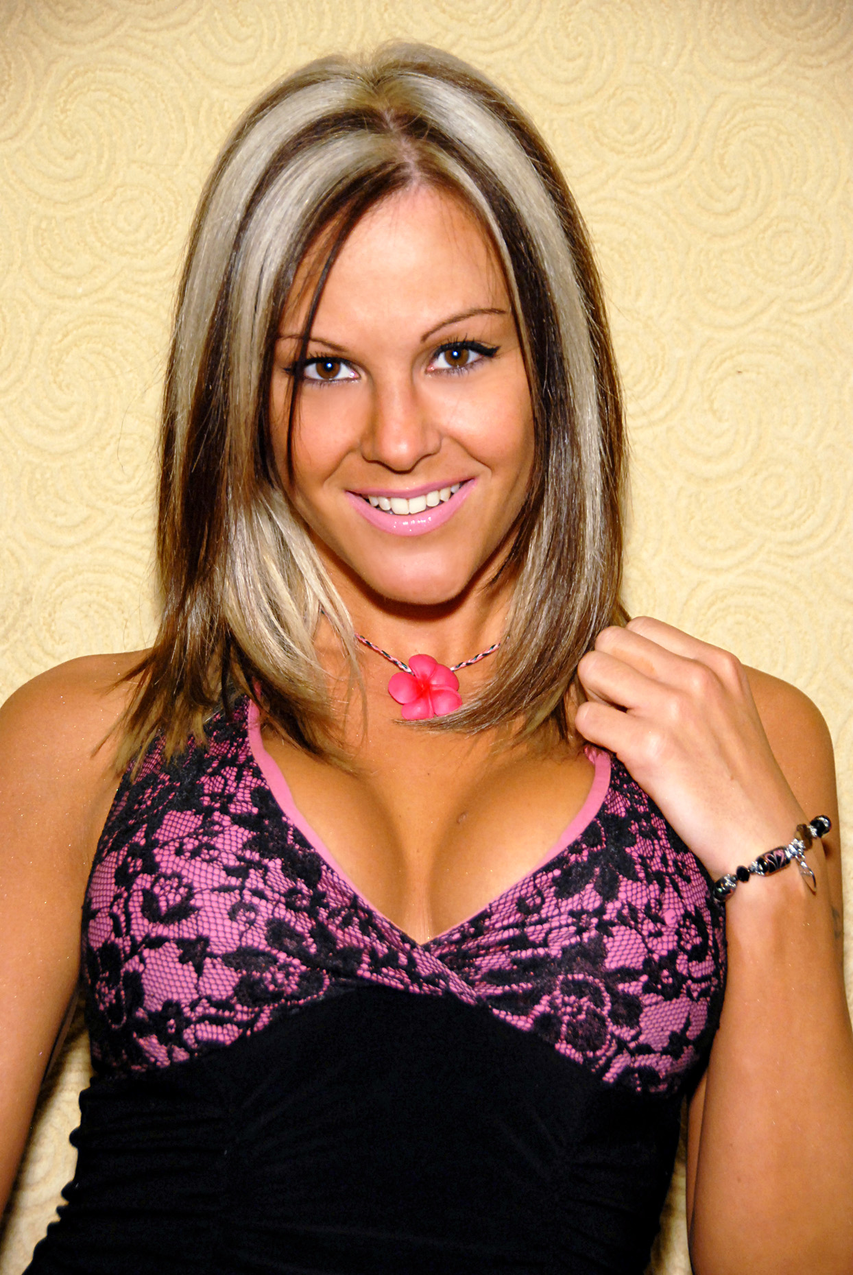 Velvet Sky, Los Angeles, CA on October 1, 2011 - Photo by Glenn Francis of